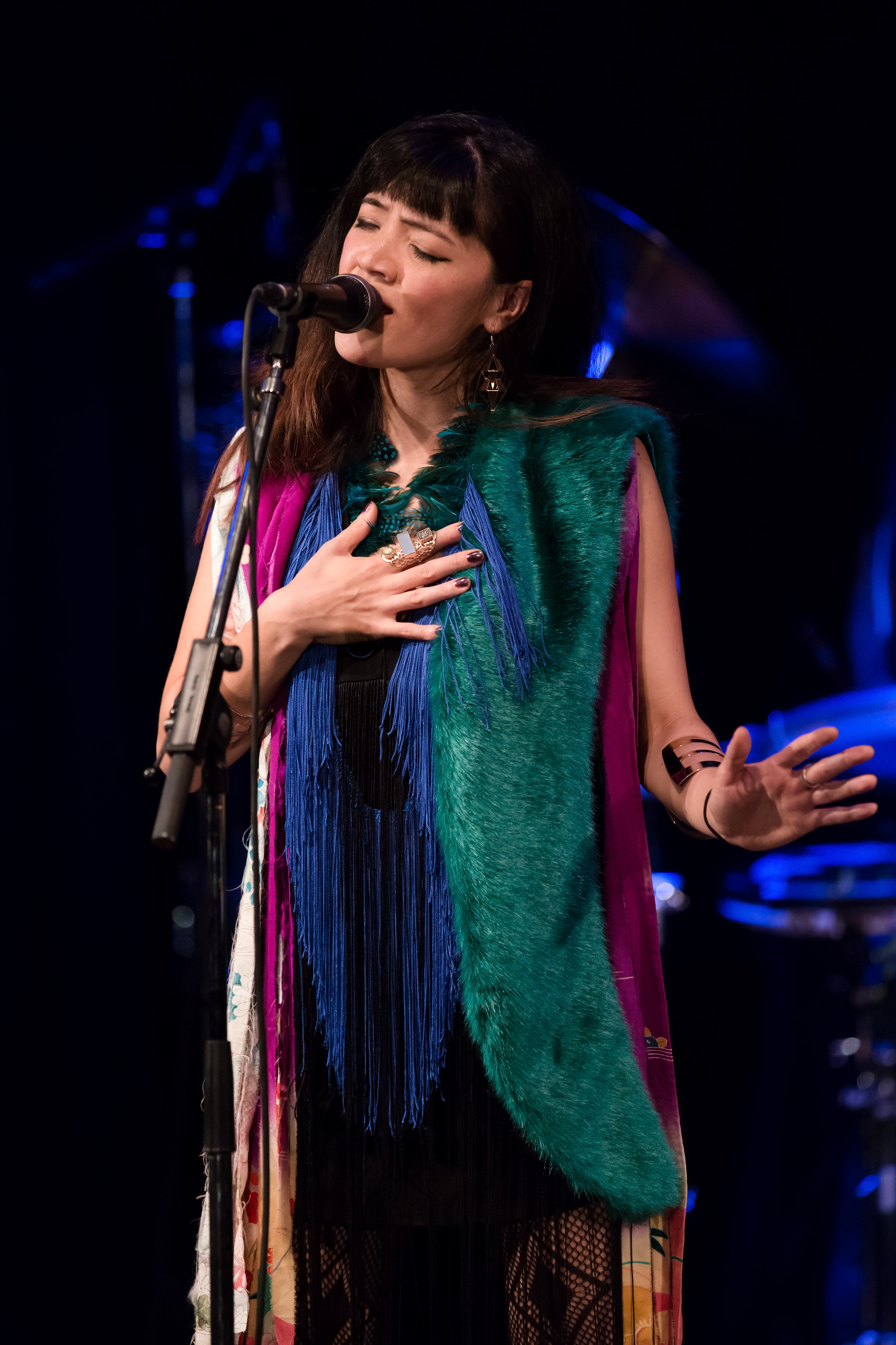 Maïa Barouh, concert at the festival Waves Vienna 2015 (Haus der Musik, Vienna, Austria).